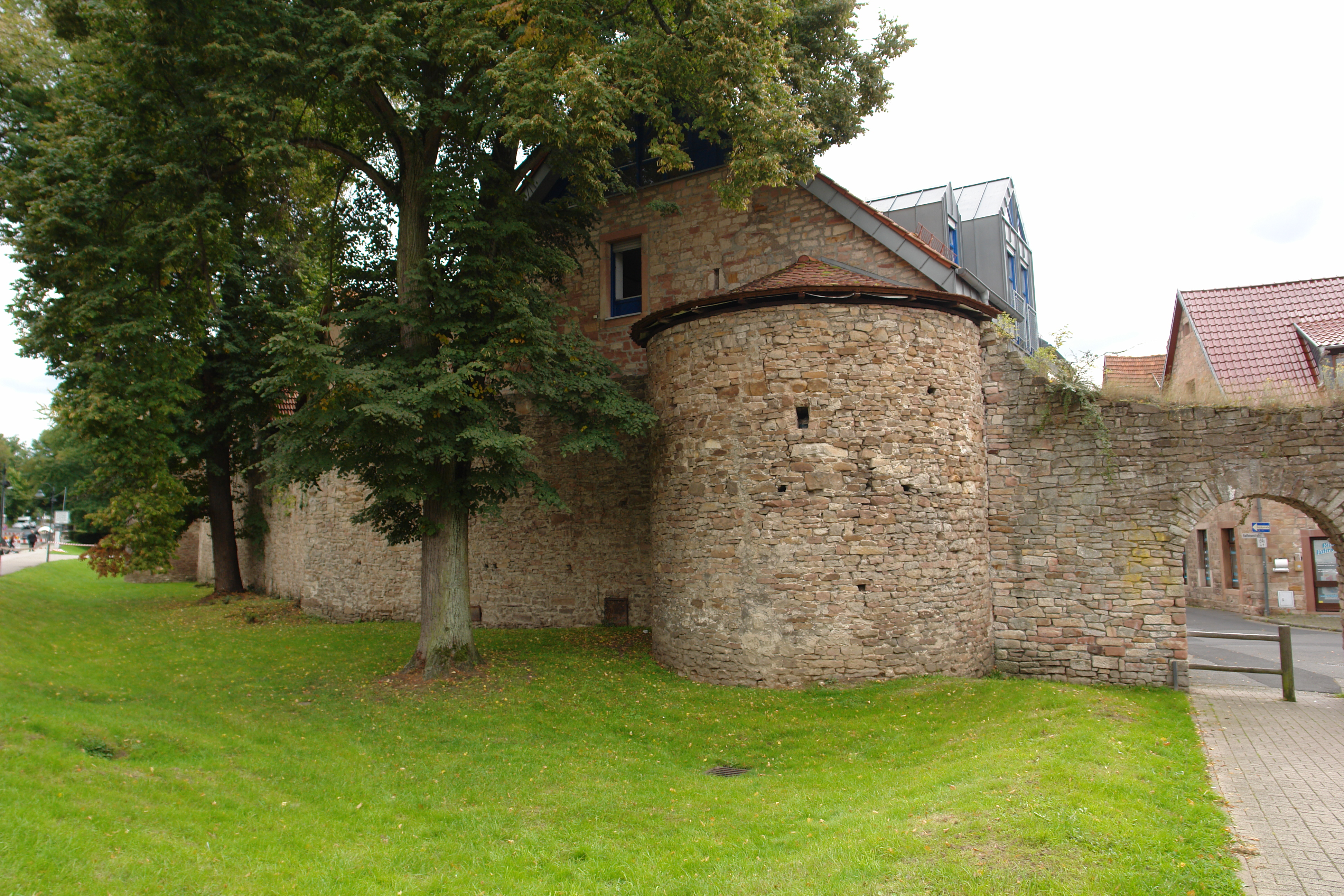 City Fortification of Bad Orb